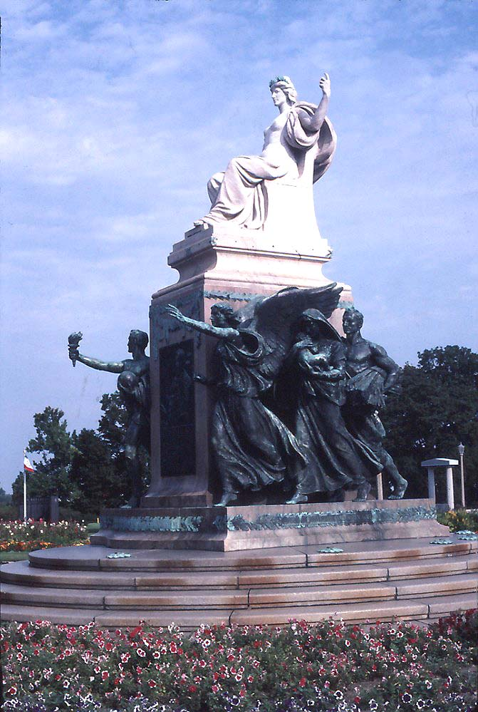 monument to Sen. William Allison in Des Moins Iowa crated in 1916